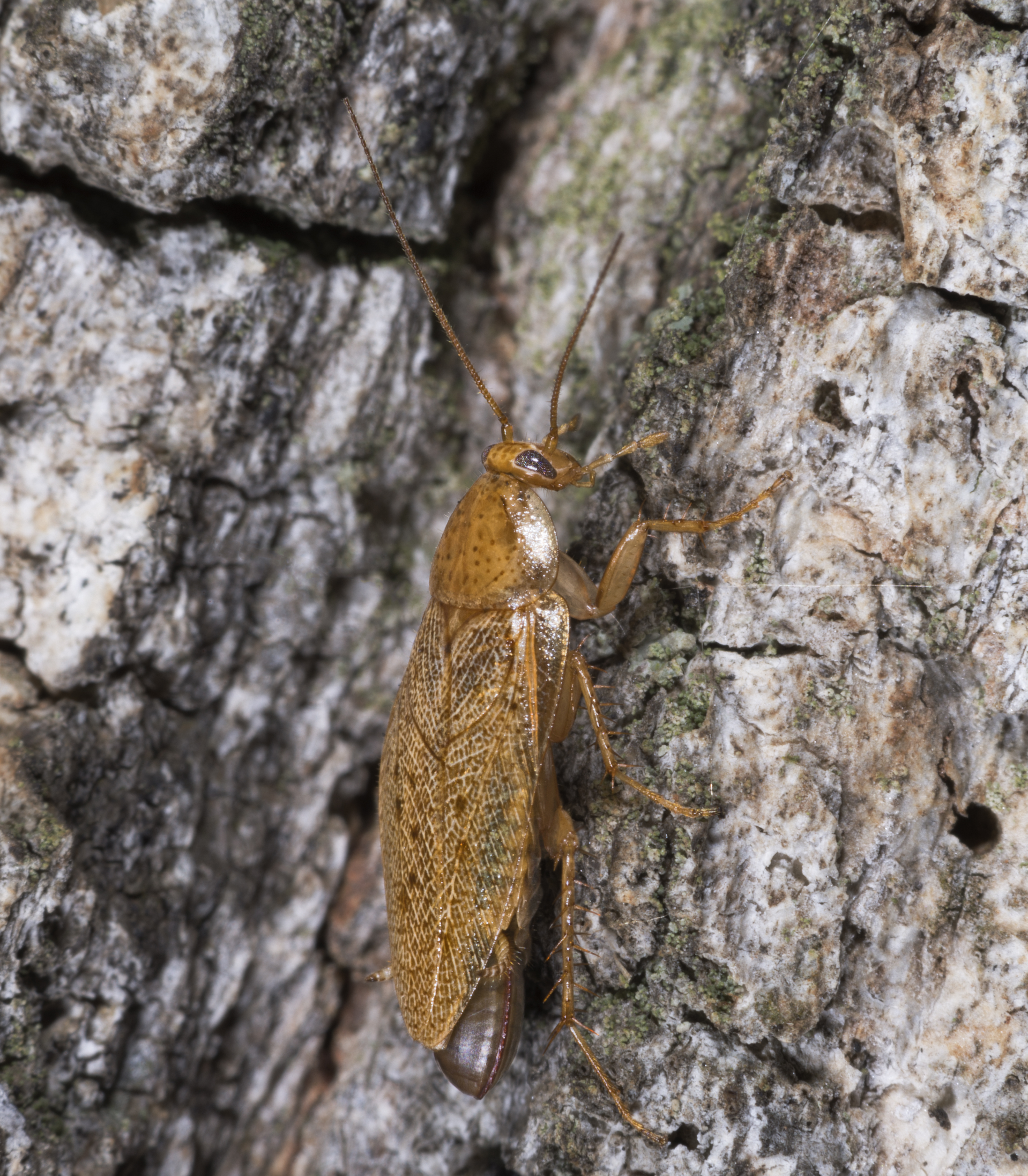 Ectobius pallidus Latéral view. In a forest at night, on trunk of oak, the ootheca is clearly visible.